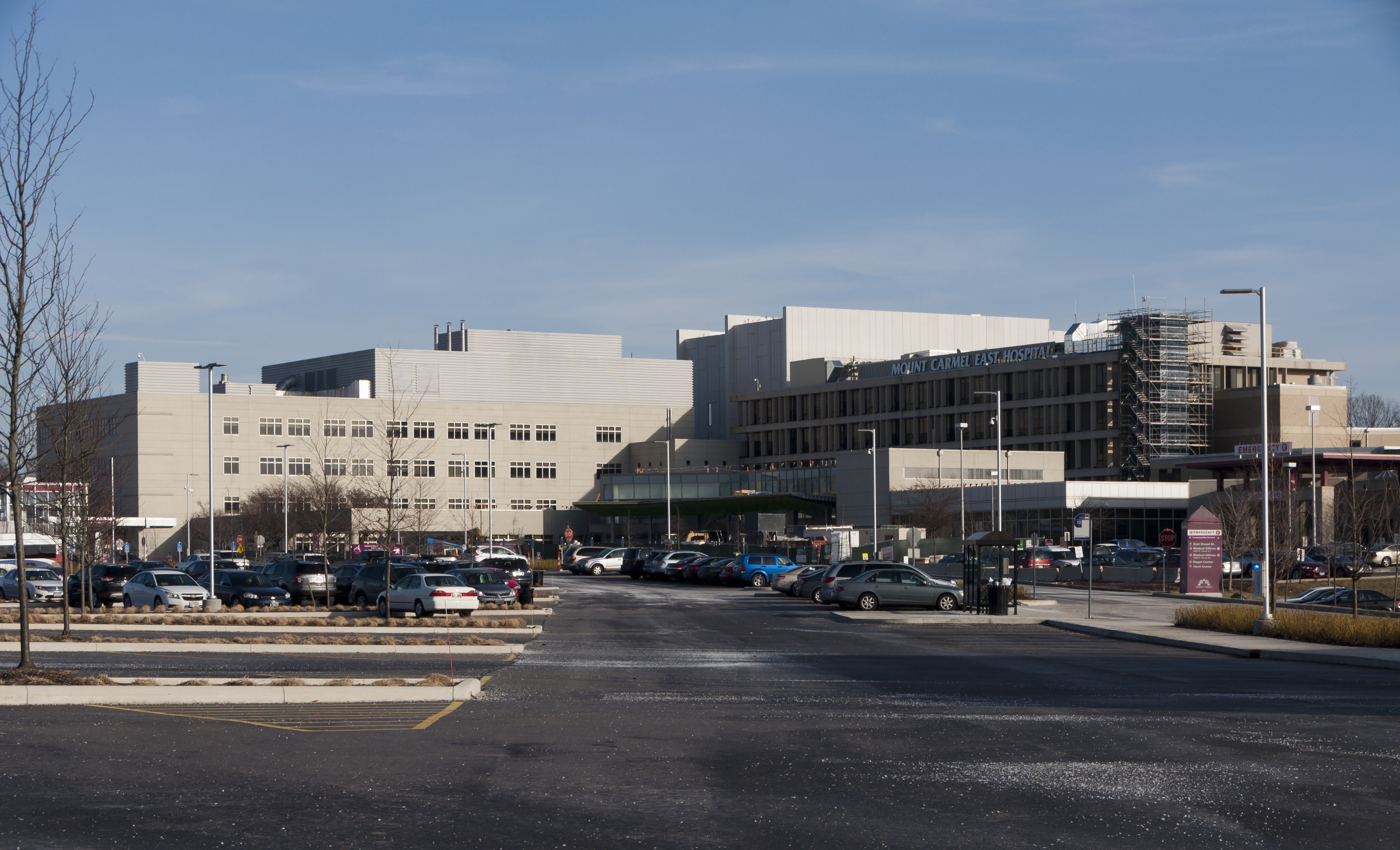 The front of Mount Carmel East undergoing construction and renovation, seen from the east, during late February 2018.